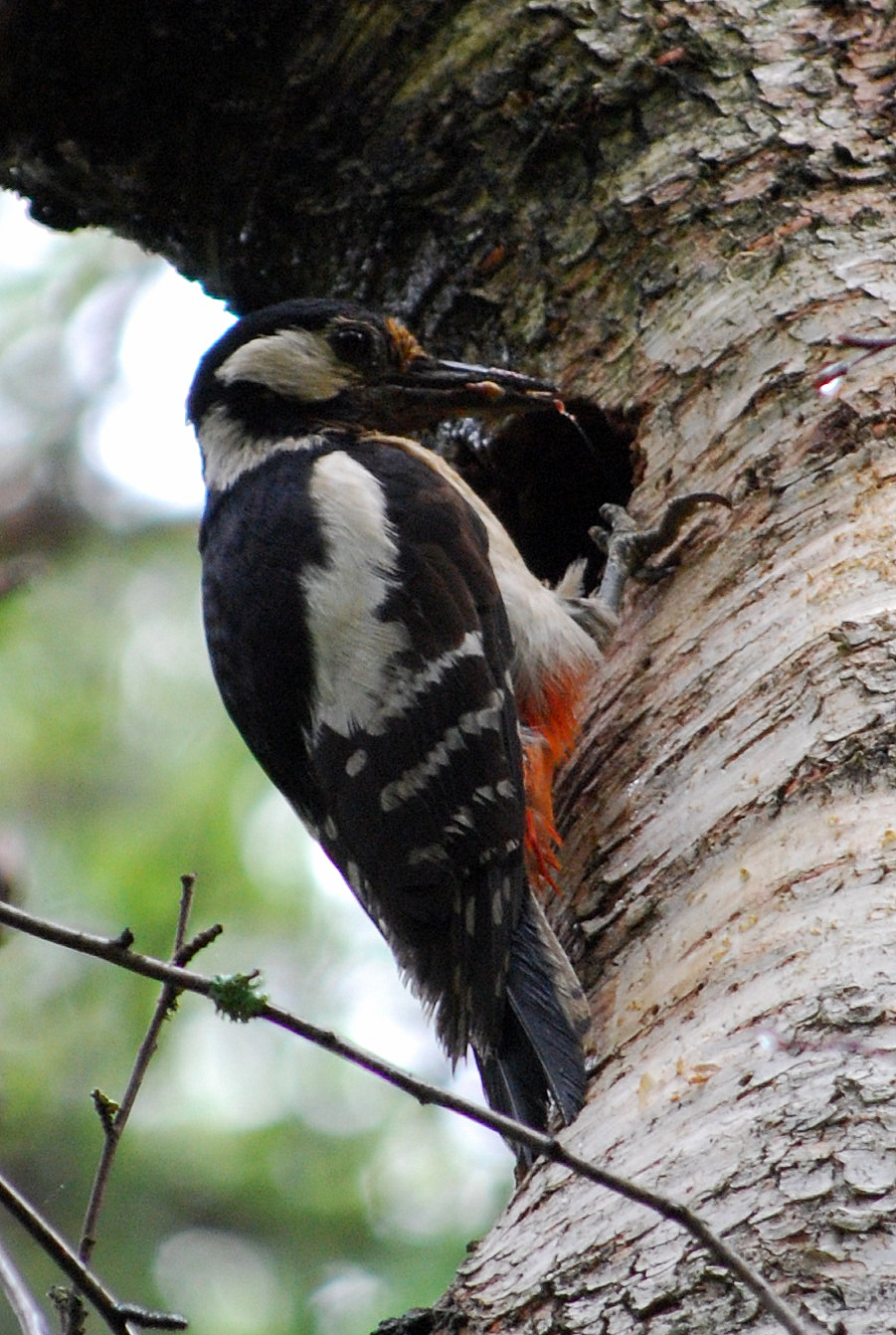 A female Great Spotted Woodpecker in Finland. She is feeding a young bird in the nest.